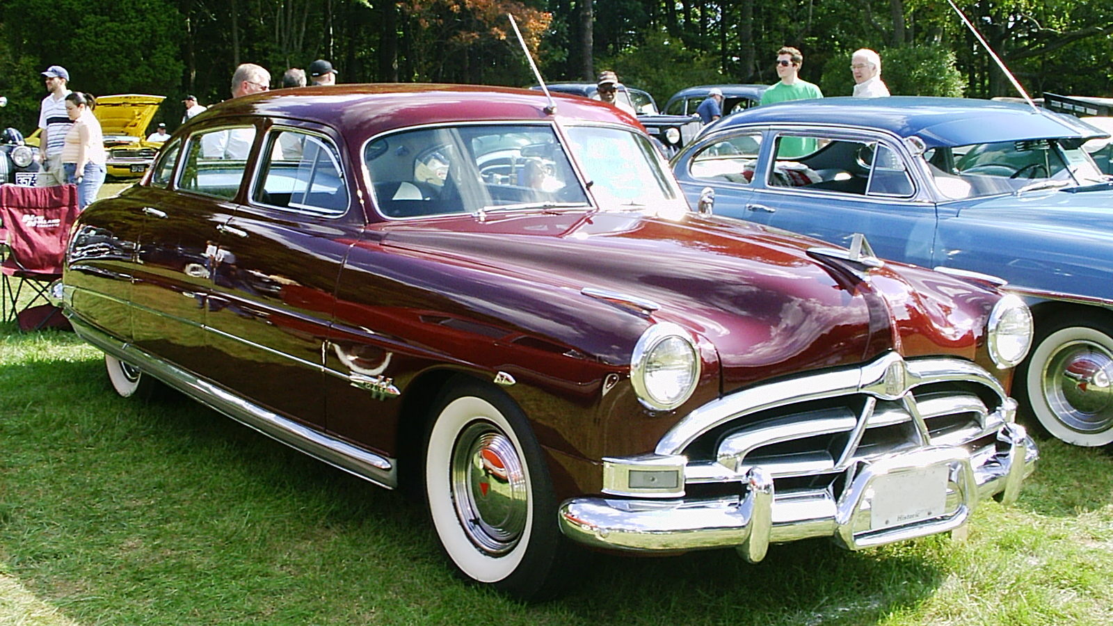 Hudson Hornet four-door sedan finished in burgundy